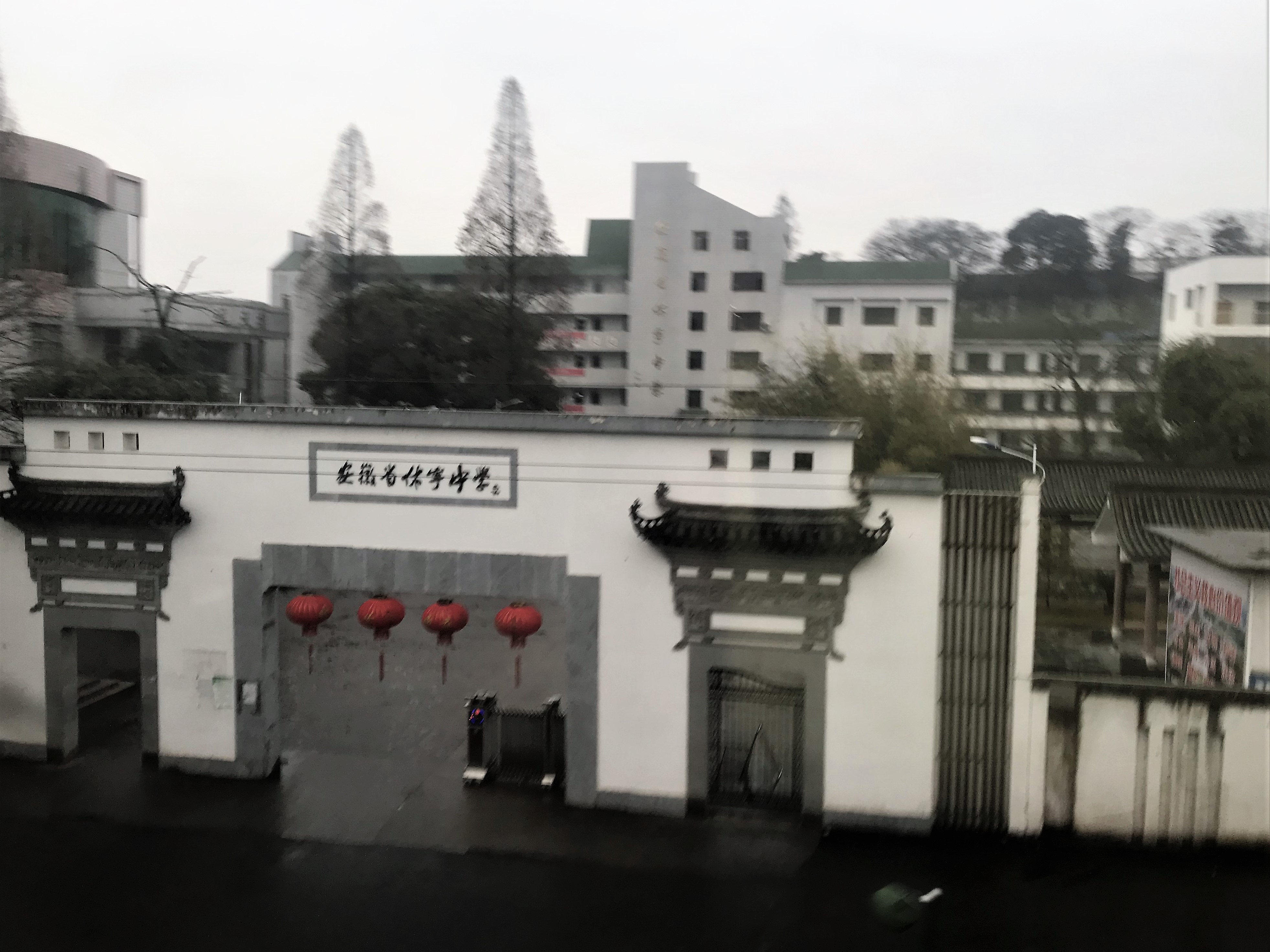 Taken on K45.